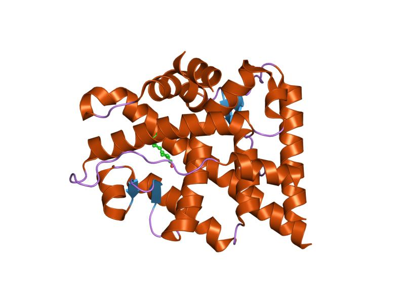 Cartoon representation of the molecular structure of protein registered with 1xow code.